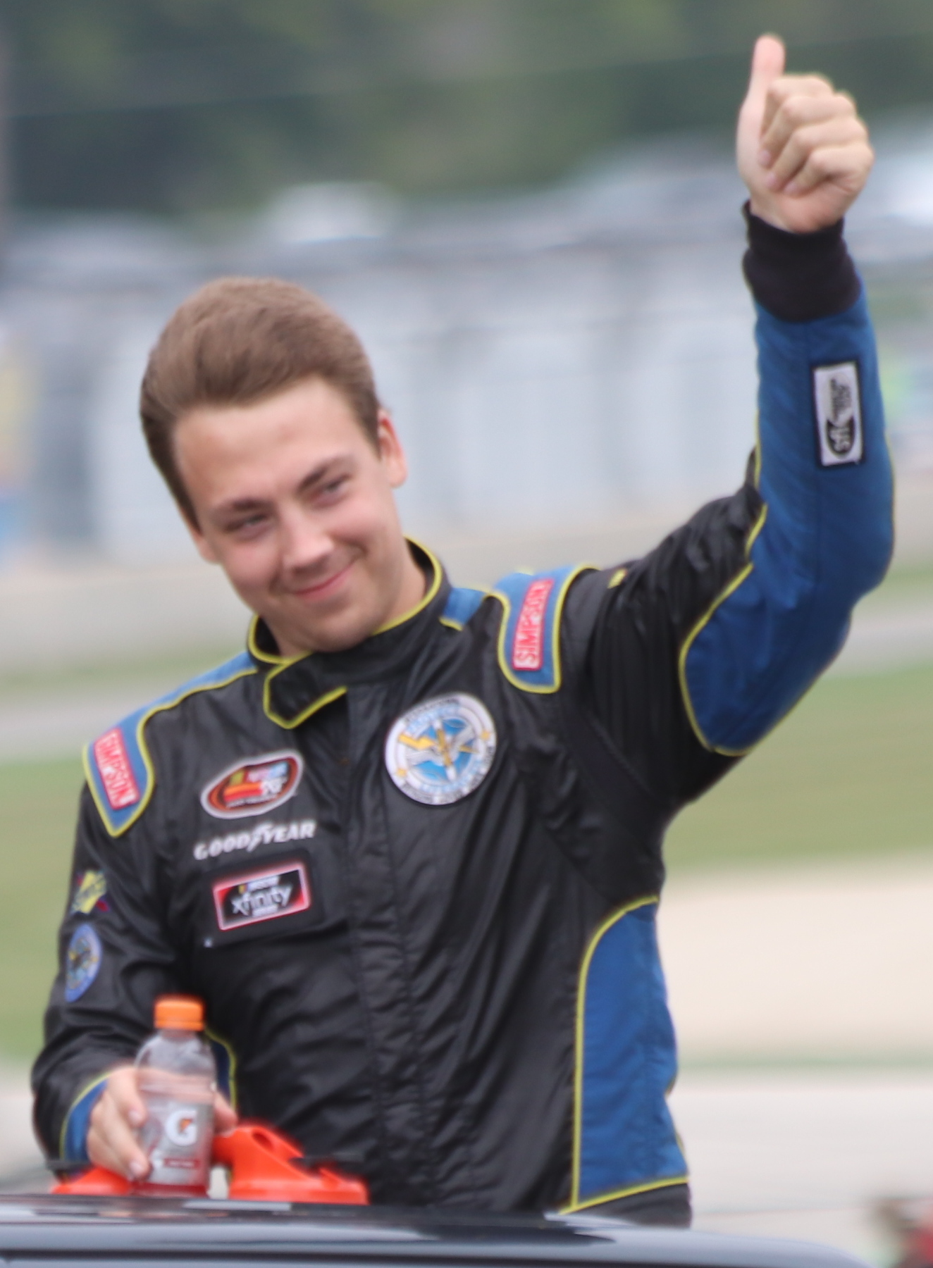 NASCAR Xfinity Series driver Scott Heckert gives the thumbs up to fans at the 2018 Road America race.